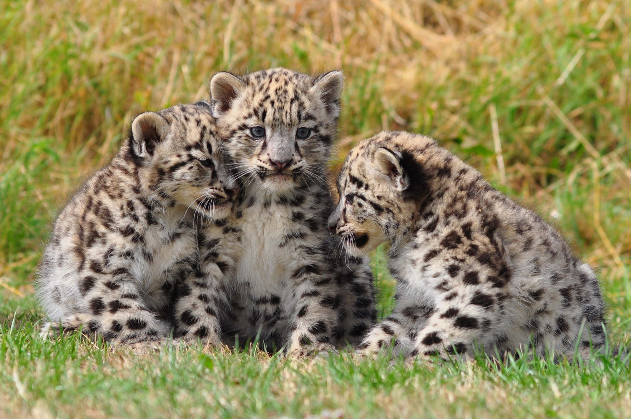 Three two-month-old snow leopard (Panthera uncia) cubs at the Cat Survival Trust, Welwyn, England.